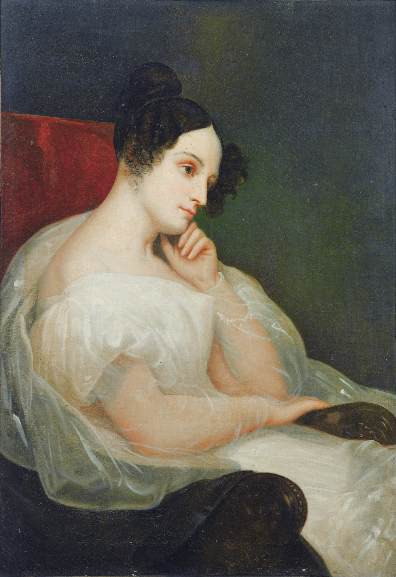 Marie-Joséphine Souham, Duchesse d'Elchingen oil on canvas 97 x 68 cm 1832